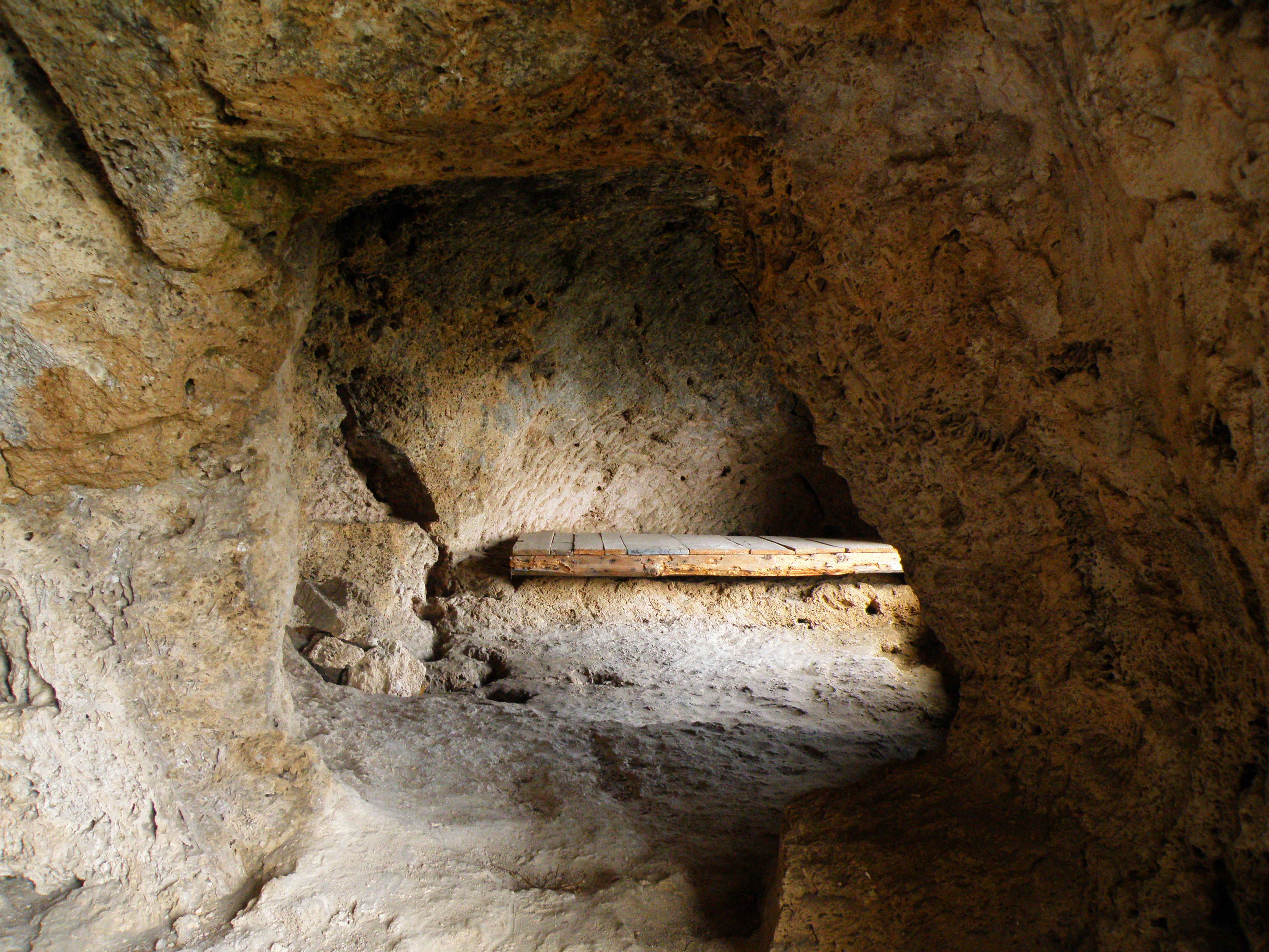 Entrance of a hermit's cave bellow the Zrze Monastery, Macedonia